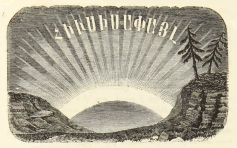 The header of the Armenian monthly "Hyusisapayl", published in Moscow in 1858-1864